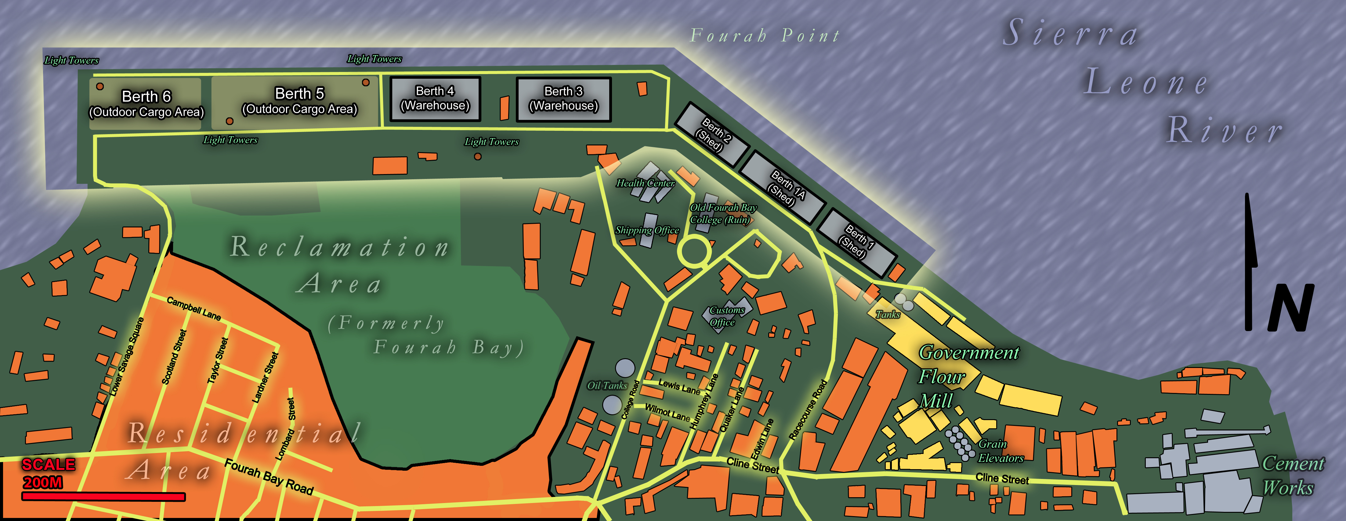 Overhead map of Queen Elizabeth II Quay